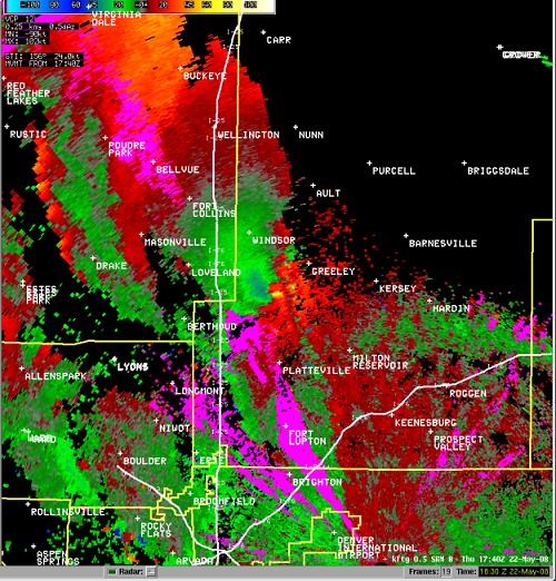 National Weather Service Doppler Radar (Velocity - Storm Relative Motion) taken at 11:35 AM MDT (1735 UTC) 28 May, 2008 showing tornado-producing supercell thunderstorm near Windsor, Colorado.